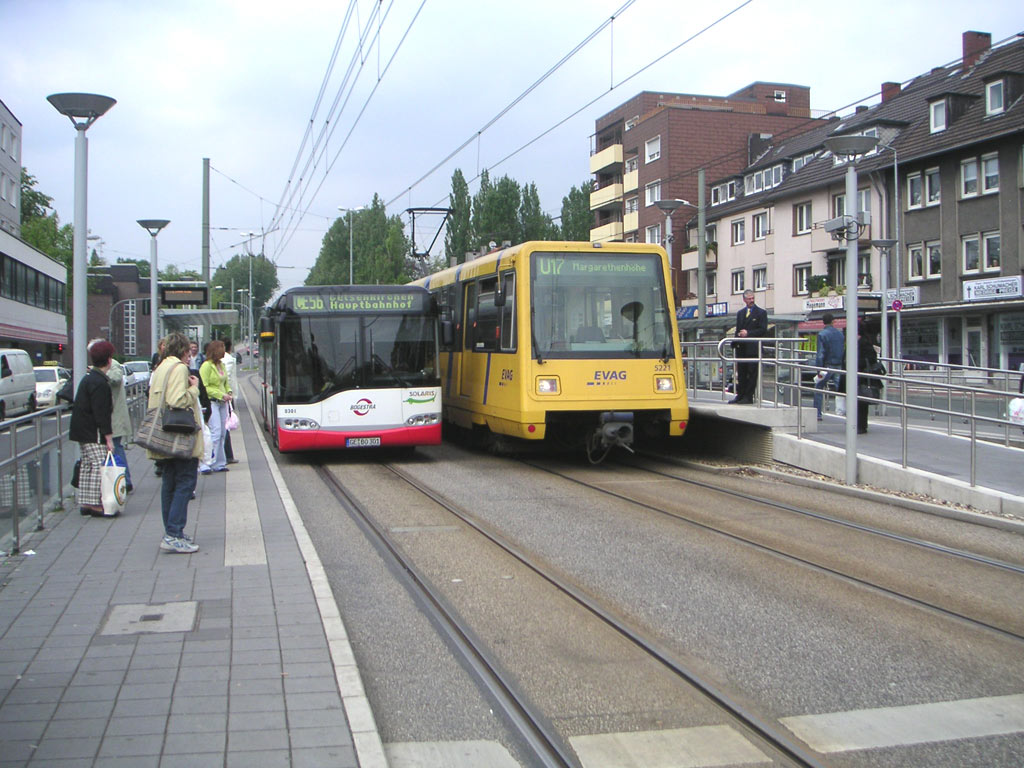 Bus, tram und subway stop/station Buerer Straße. Solaris Urbino 12 bus (#0301) in Gelsenkirchen, Germany. Built 2003, Bogestra Bochum operator.